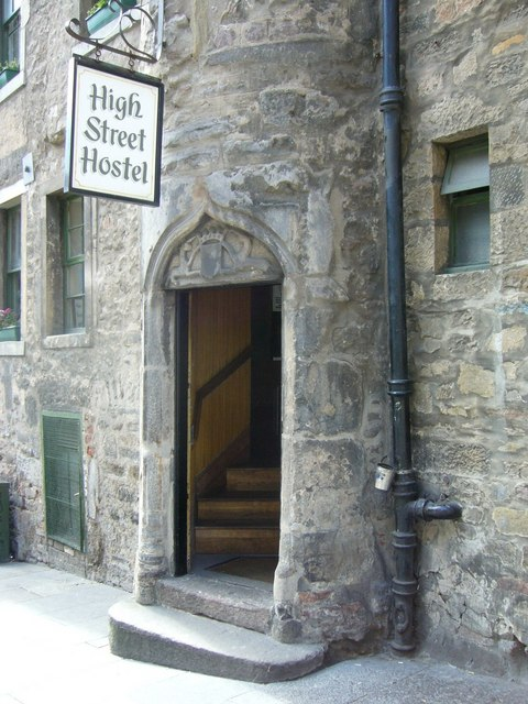 Blackfriars Street doorway Samuel Johnson, in the company of James Boswell, spent his first night in Edinburgh in an inn not far from this modern hostel for backpackers.